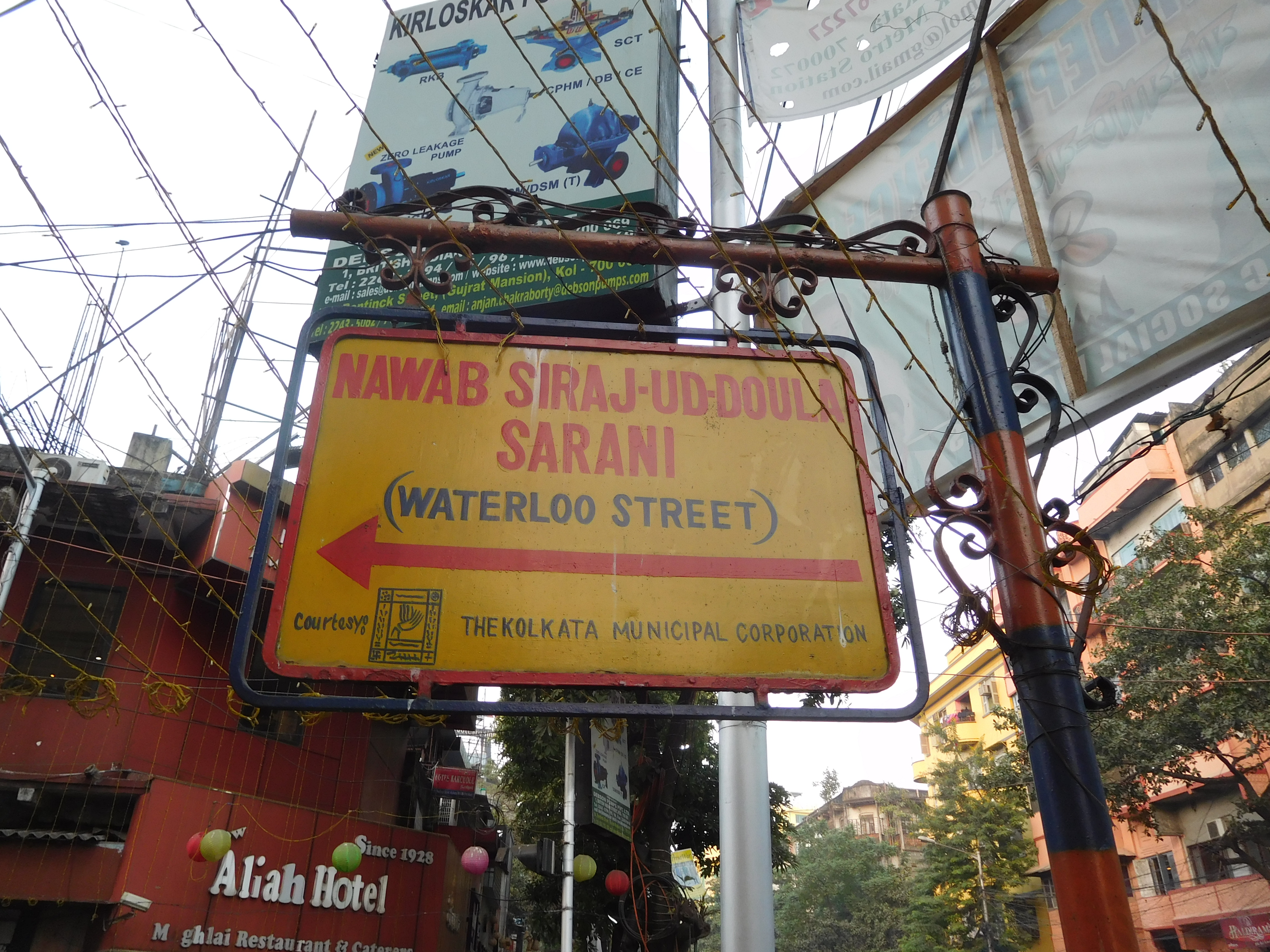 The 'Waterloo street' of Calcutta has been renamed